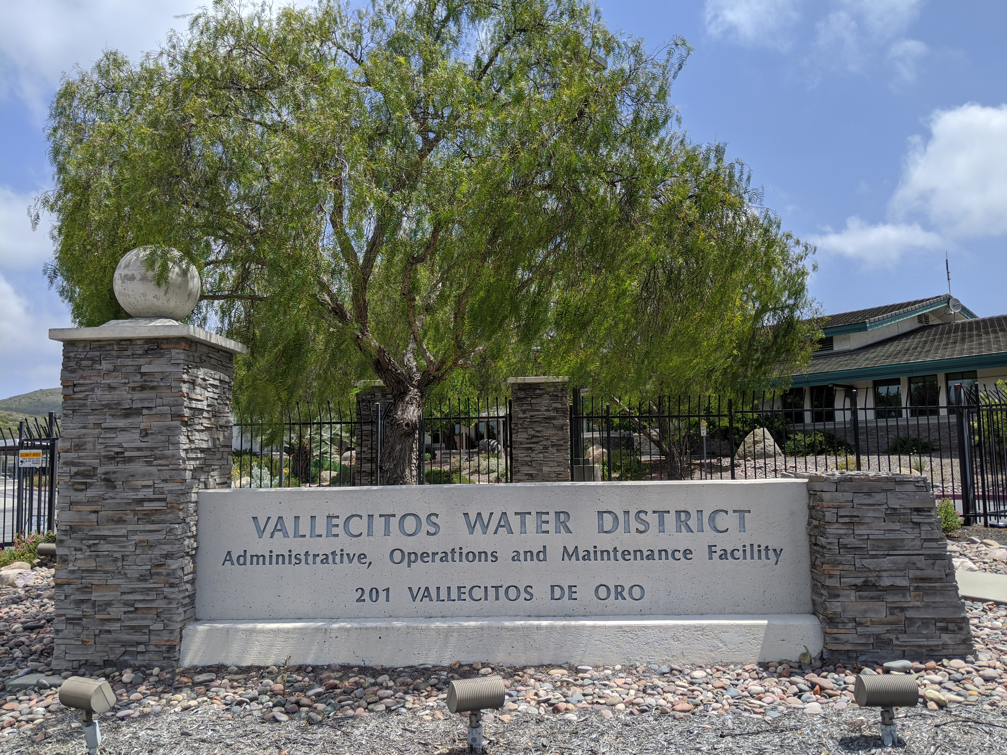 A 2020 photo of the entrance to the Vallecitos Water District building